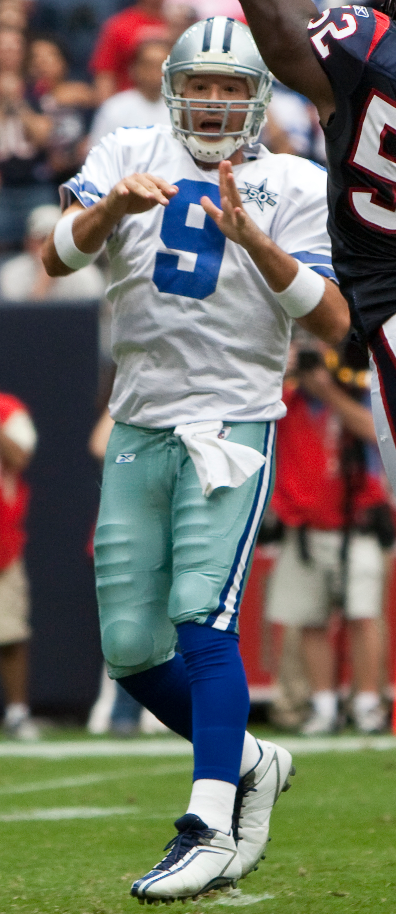 Tony Romo of the Dallas Cowboys gets a pass of just over the out stretched arm of Texans line backer Xavier Adibi in the Cowboys win over the Houston Texans Sunday Sept. 26, 2010. Reliant Stadium.